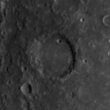 Liszt crater on Mercury. Cropped from Mariner 10 image 00166912.